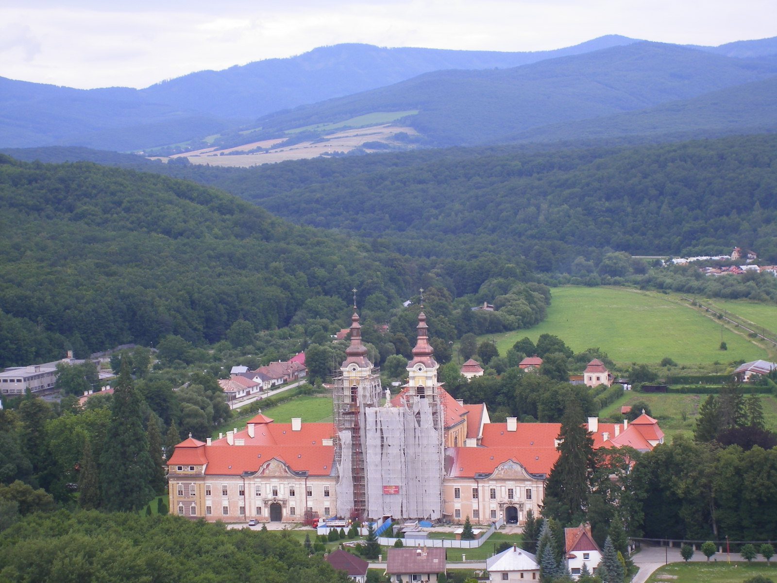 Jasov - view of the monastery from the Jasovská skala hill